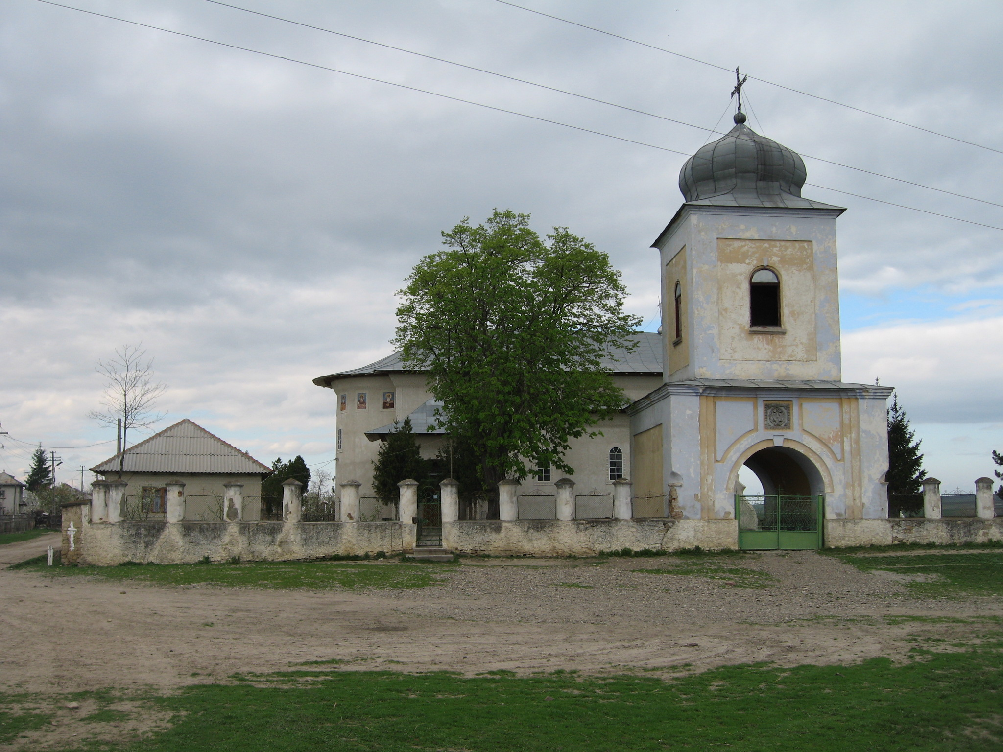 Biserica Sfinţii Voievozi din Cepleniţa 01